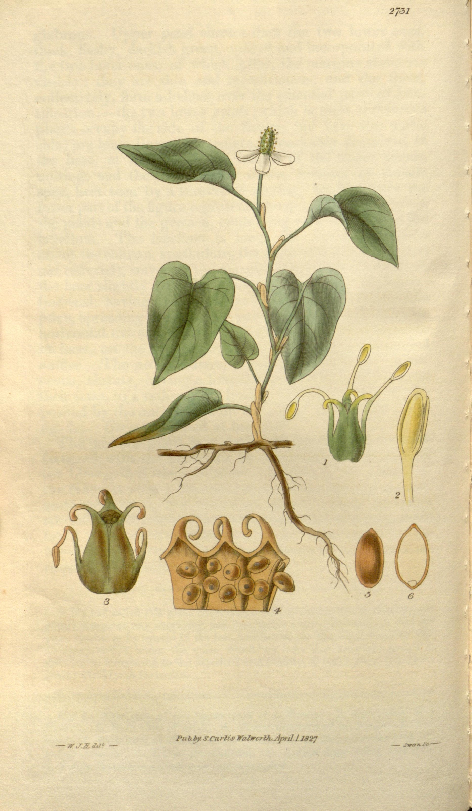 2/31 Pnb.by. S.Cuilis WalwcrVi Aptil 1 J82J